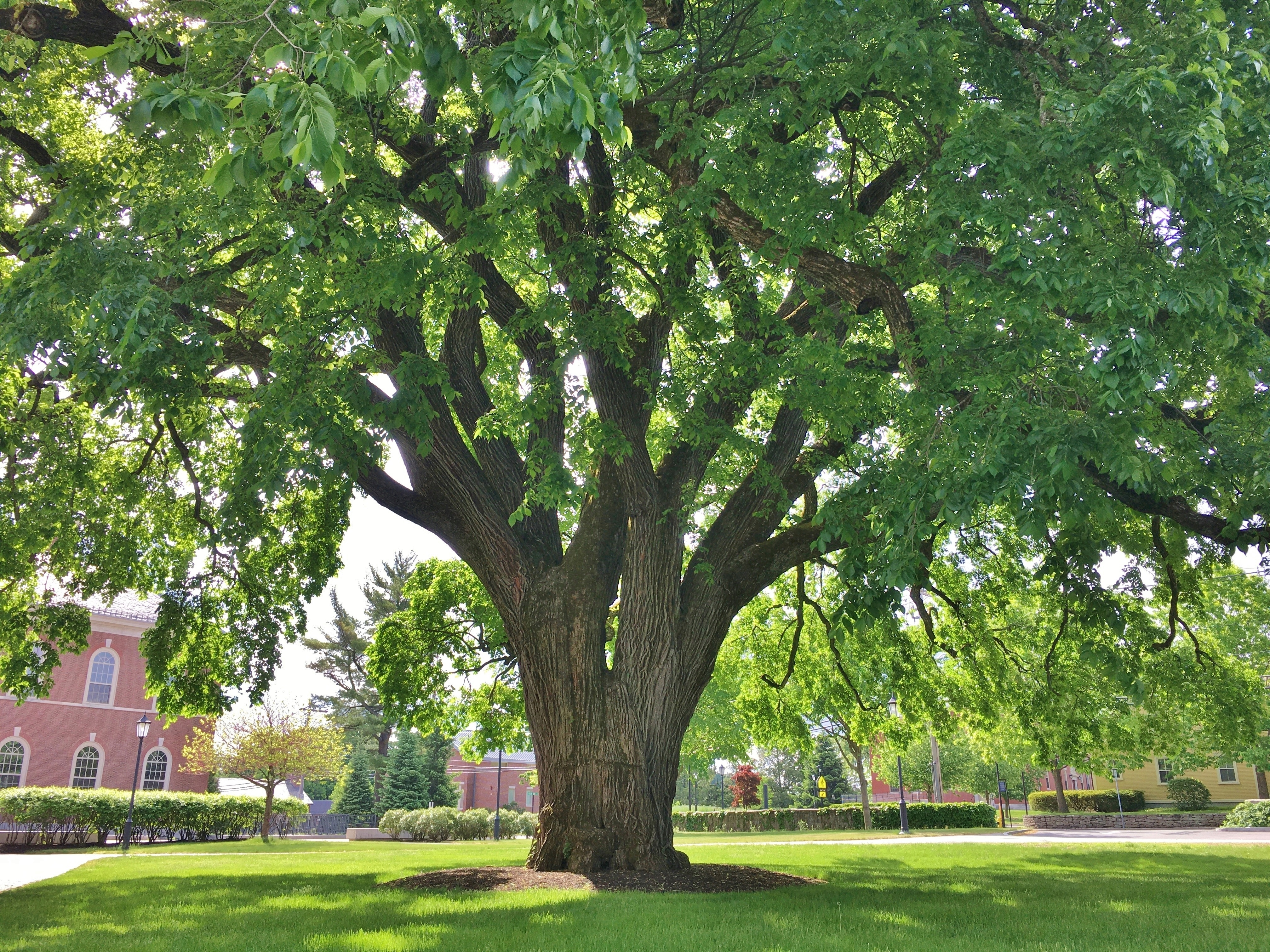 Photograph from May 2020 of an American elm tree at Phillips Academy in Andover, MA. Phillips Academy was founded in 1778 and the tree is estimated to be over 200 years old. Tree measurements as of November 2019: circumference of 21 feet; spread over 100 feet; height estimated at 65 feet.